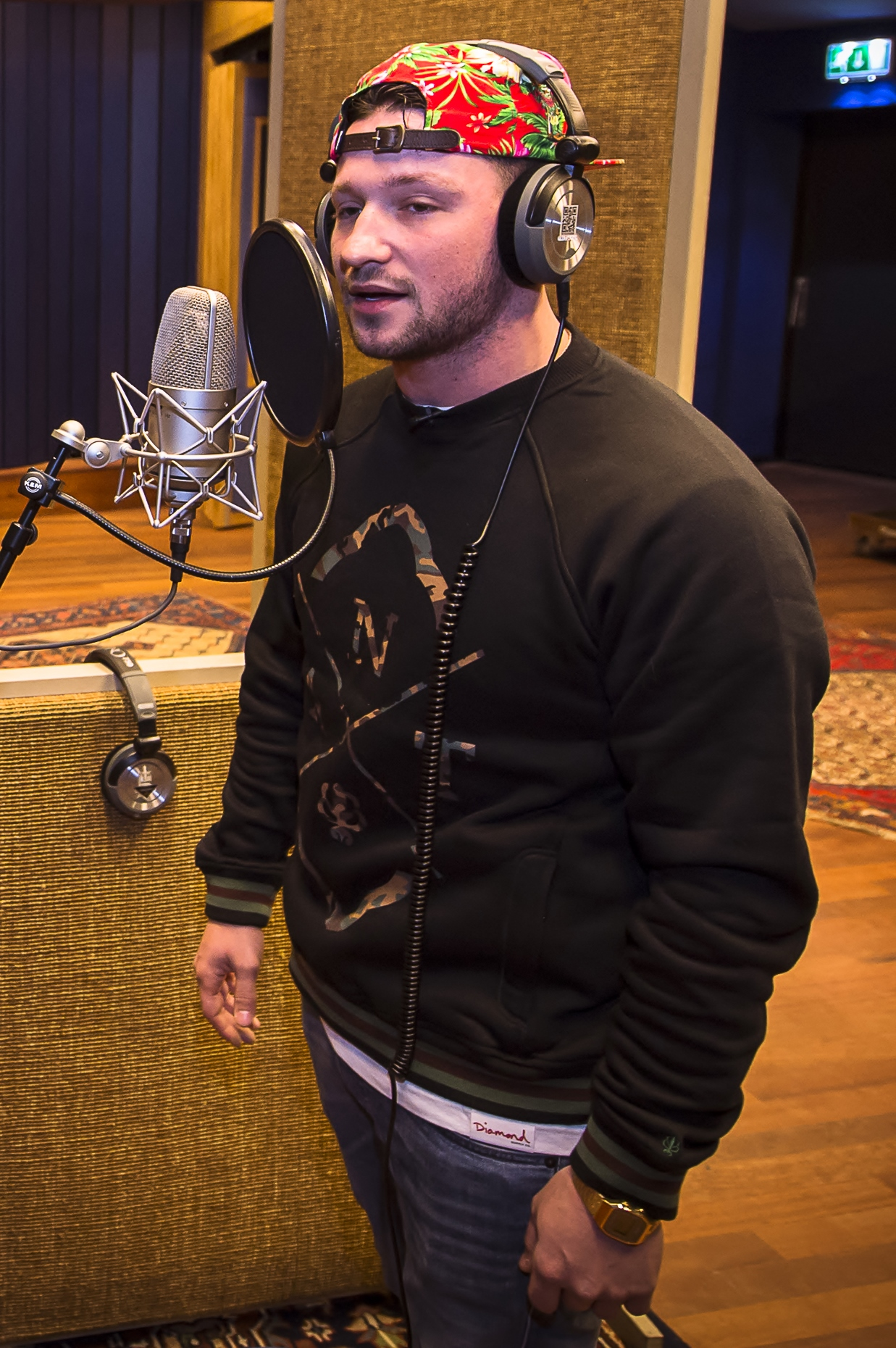 Kraantje Pappie at the Wisseloord Studio's in Hilversum for ING's "A day as a superstar" on 27 January 2013.